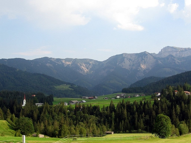 General view of Steinberg am Rofan, Austria